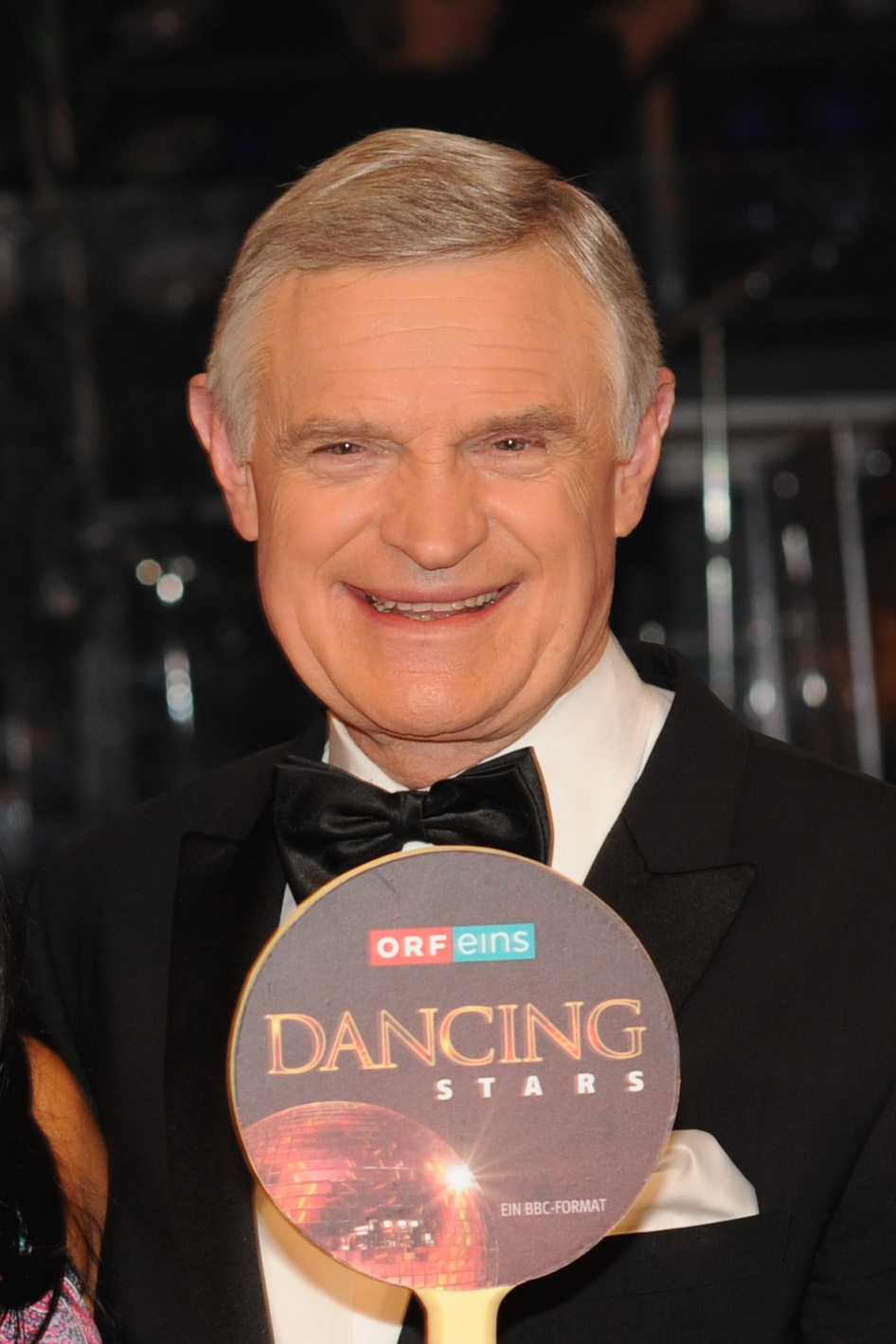 "Dancing Stars" am 5. April 2013 The making of this document was supported by Wikimedia Austria. Thomas Schäfer-Elmayer